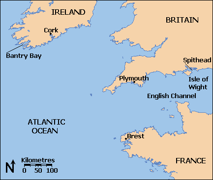 Map of important locations in the French Expédition d'Irlande, 1797-1798